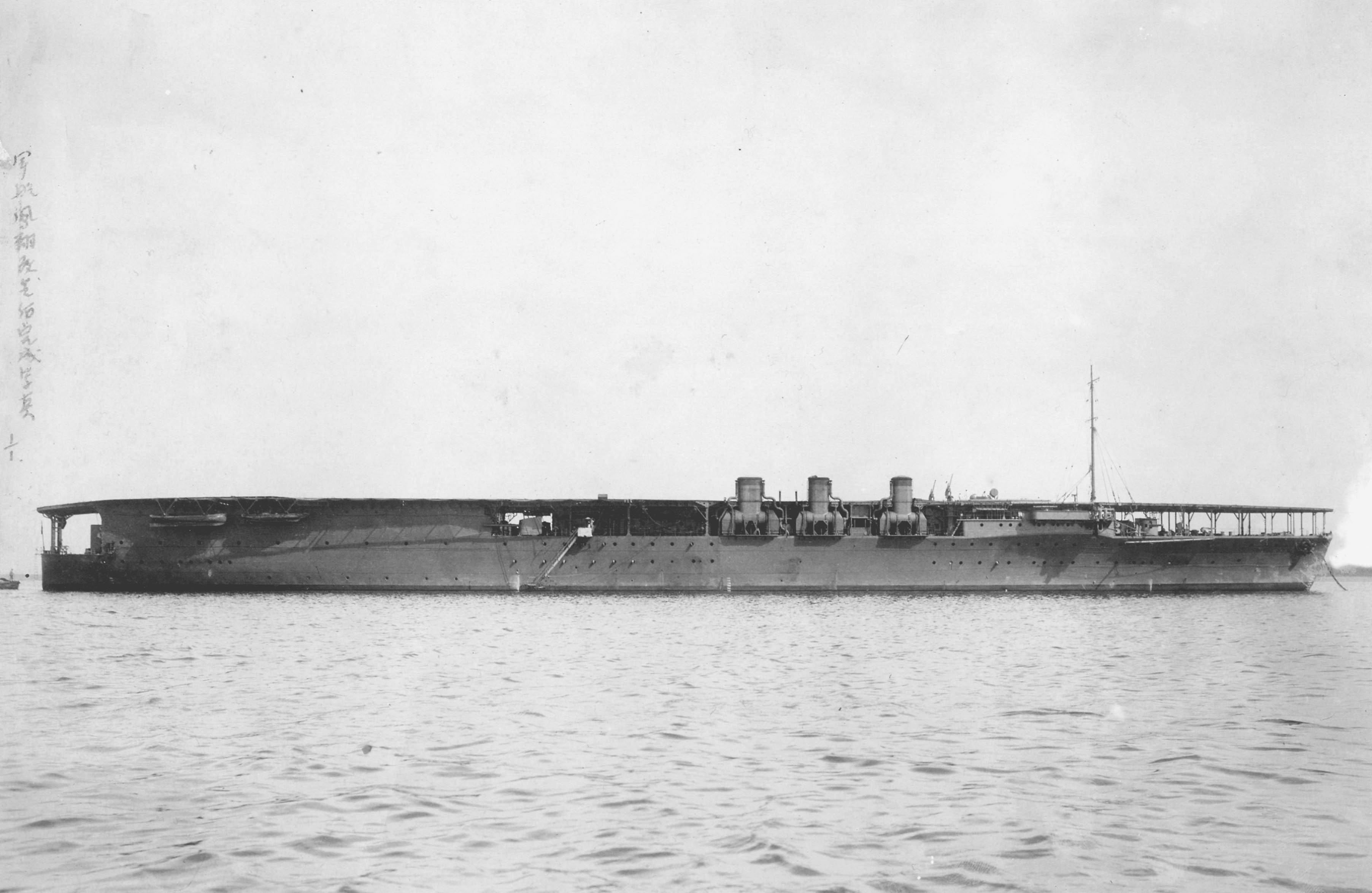 鳳翔 日本海軍航空母艦 艦橋撤去改修後の写真。Imperial Japanese Navy aircraft carrier Hōshō at Yokosuka after removal of the flight deck island.